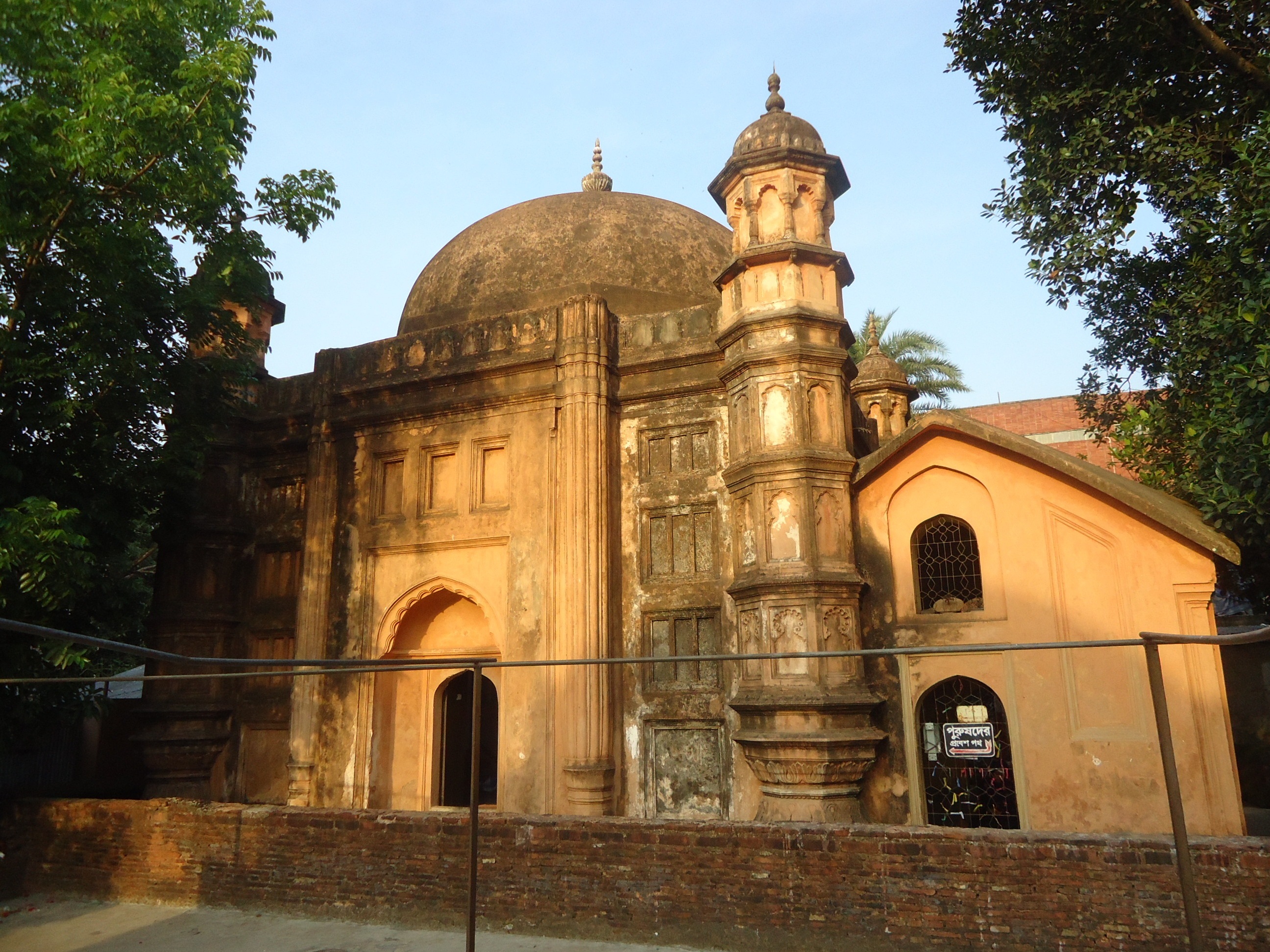 1679 tomb dhaka, historic architecture of Bangladesh